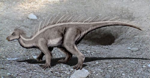 Koreanosaurus